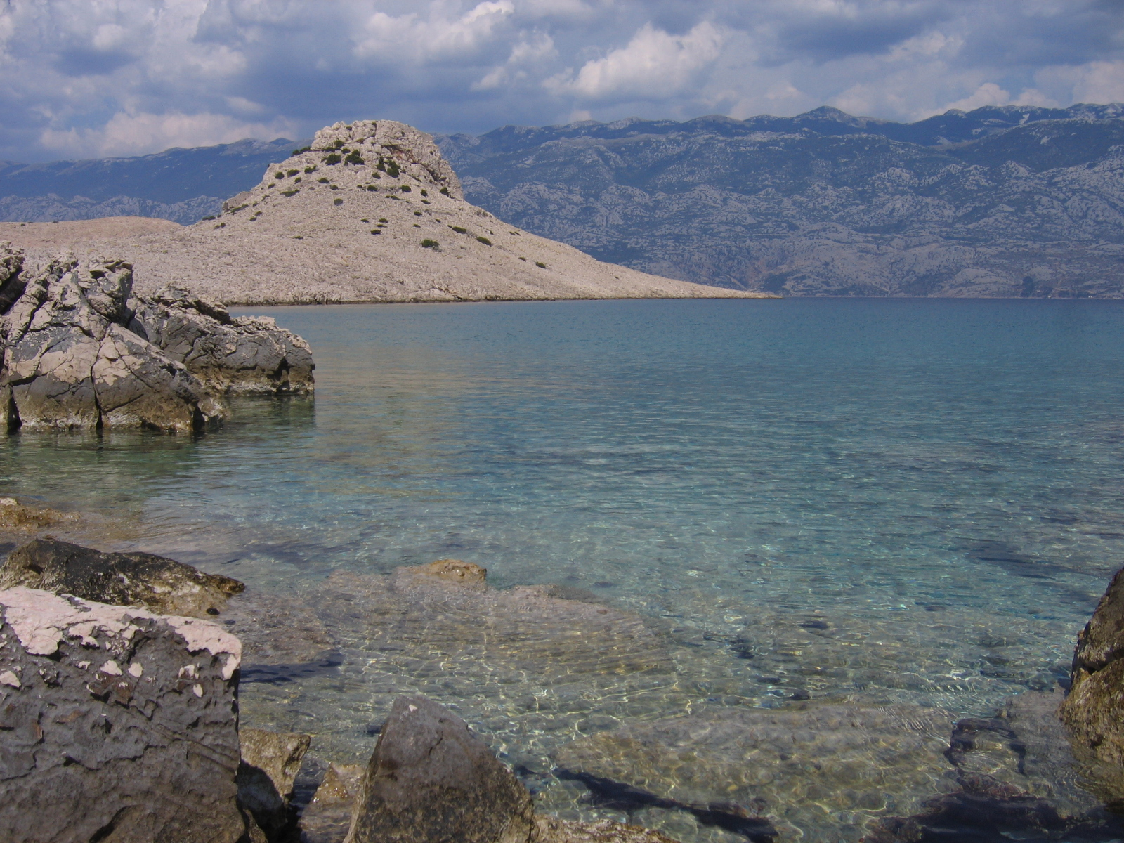 Pag island Croatia